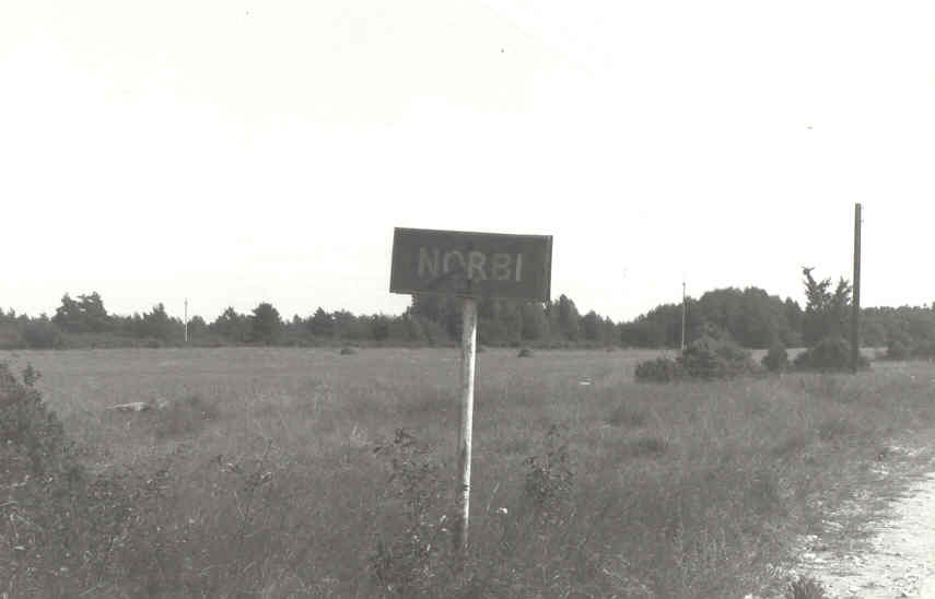 The village Norbi (Norrby) at Ormsö, Estonia.